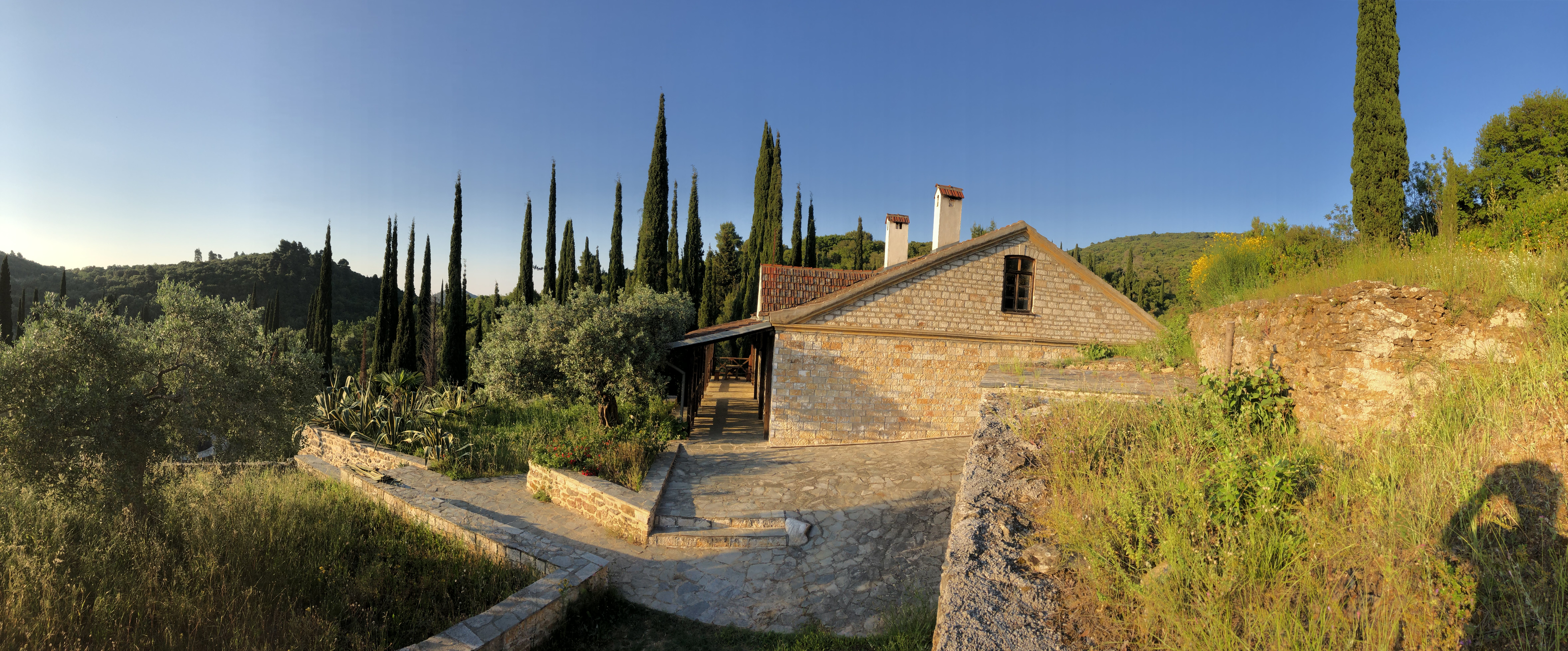 Veroljub Atanasijevic, architect. Mount Athos, Agios Oros, Greece - Serbian Monastery Hilandar (Chilandar) Hospital, reconstruction, 2000. The first Serbian hospital founded in Hilandar Monastery in 1191.